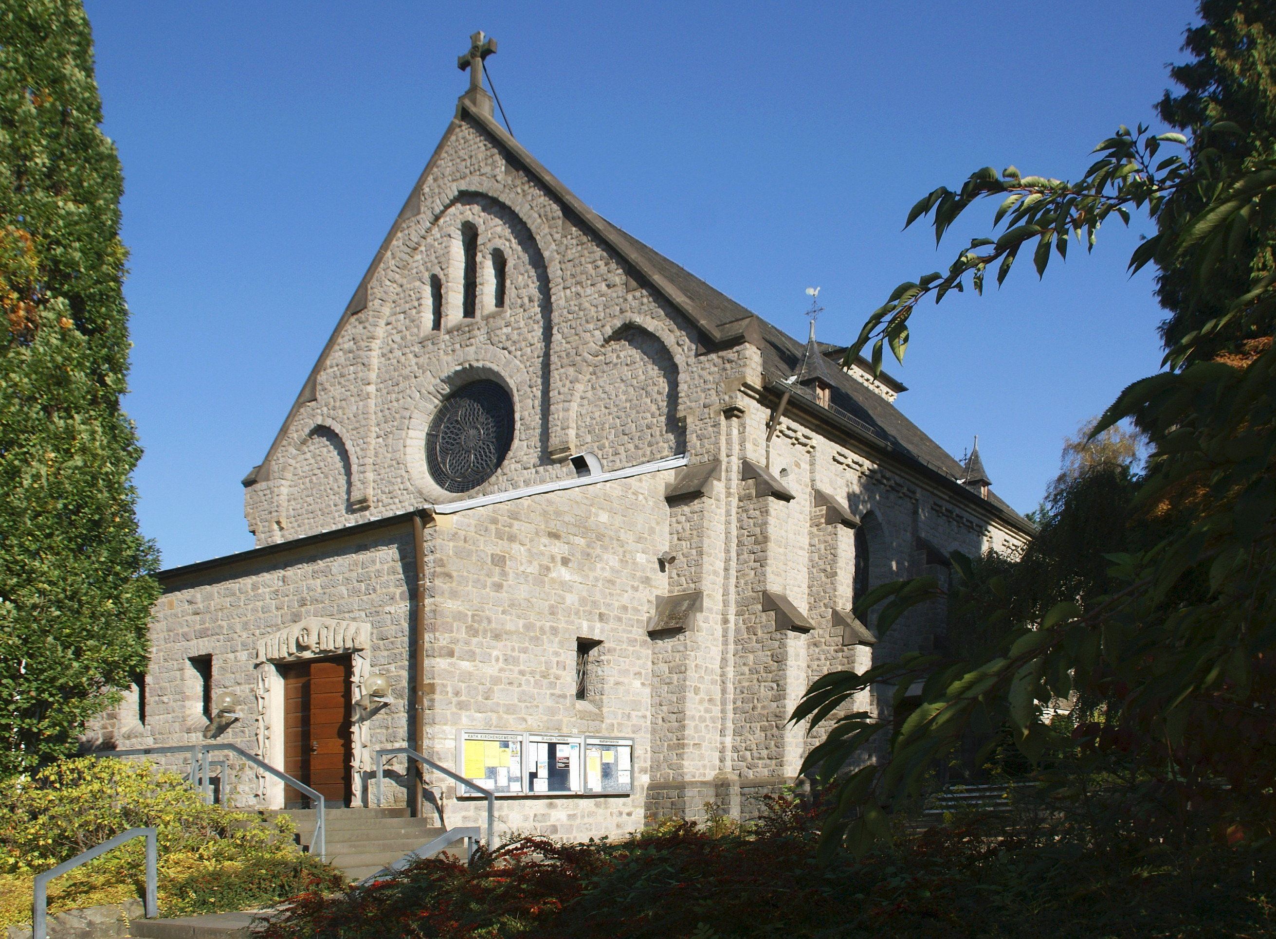 Catholic church of St. Judas Thaddäus in Heisterbacherrott: view from the Dollendorfer Stzraße